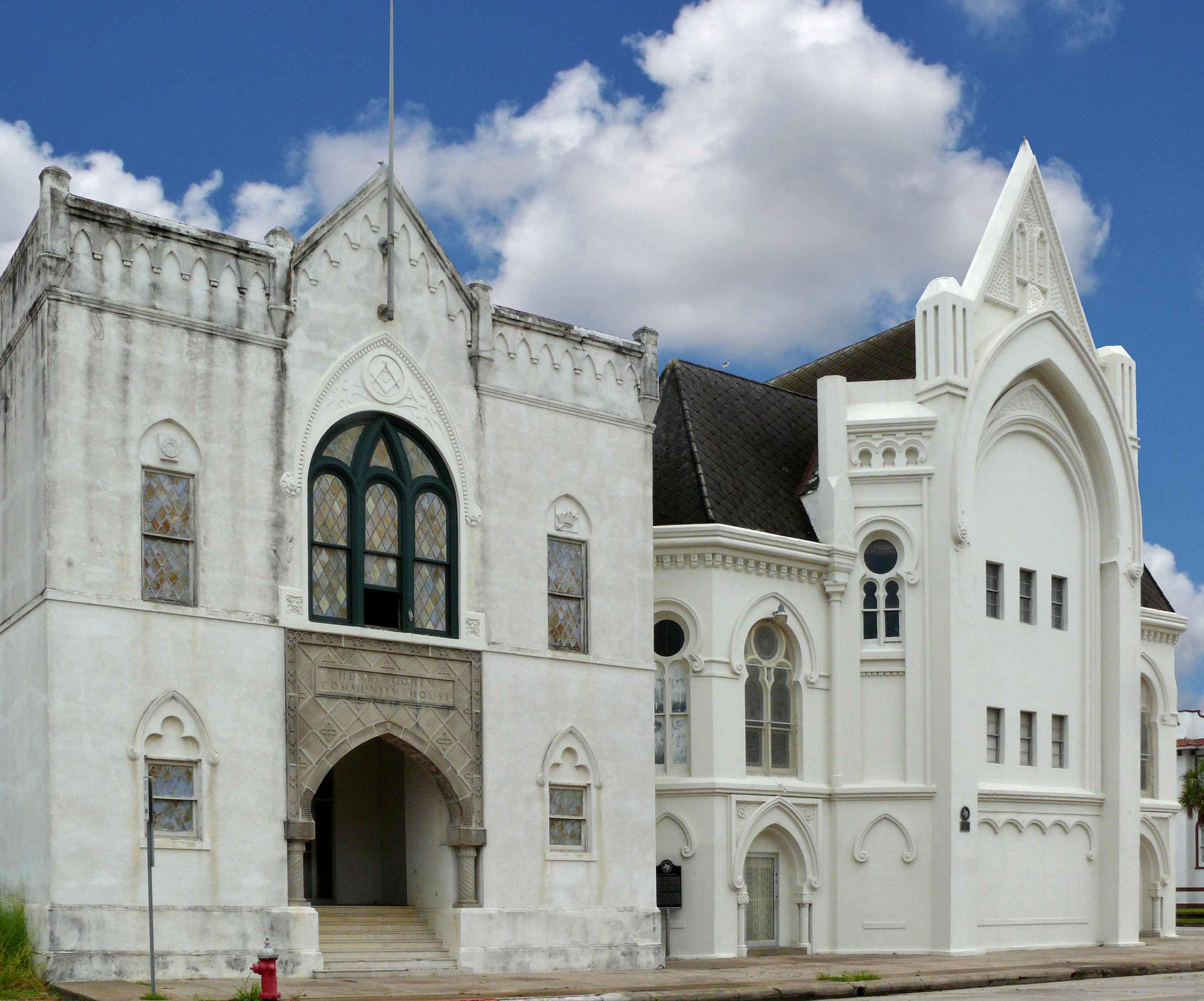 Erected in 1870. Cultural and religious center for 85 years. Second oldest temple in Texas. Converted to Masonic Temple in 1953. Henry Cohen, rabbi from 1888-1950, was noted adviser and beloved humanitarian to the entire city. The Community House is in his name.